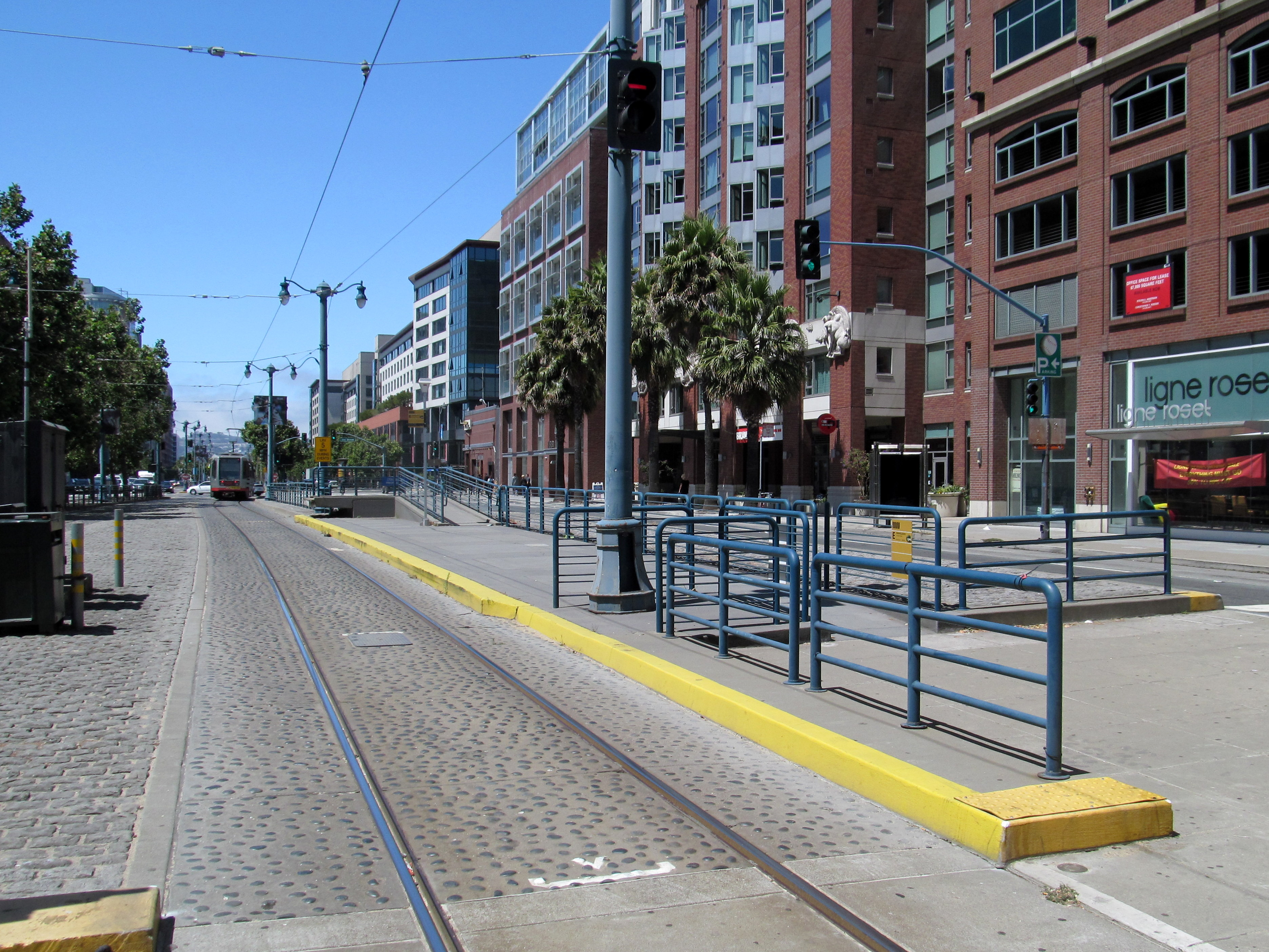 E Embarcadero boarding area at 2nd and King station in July 2017